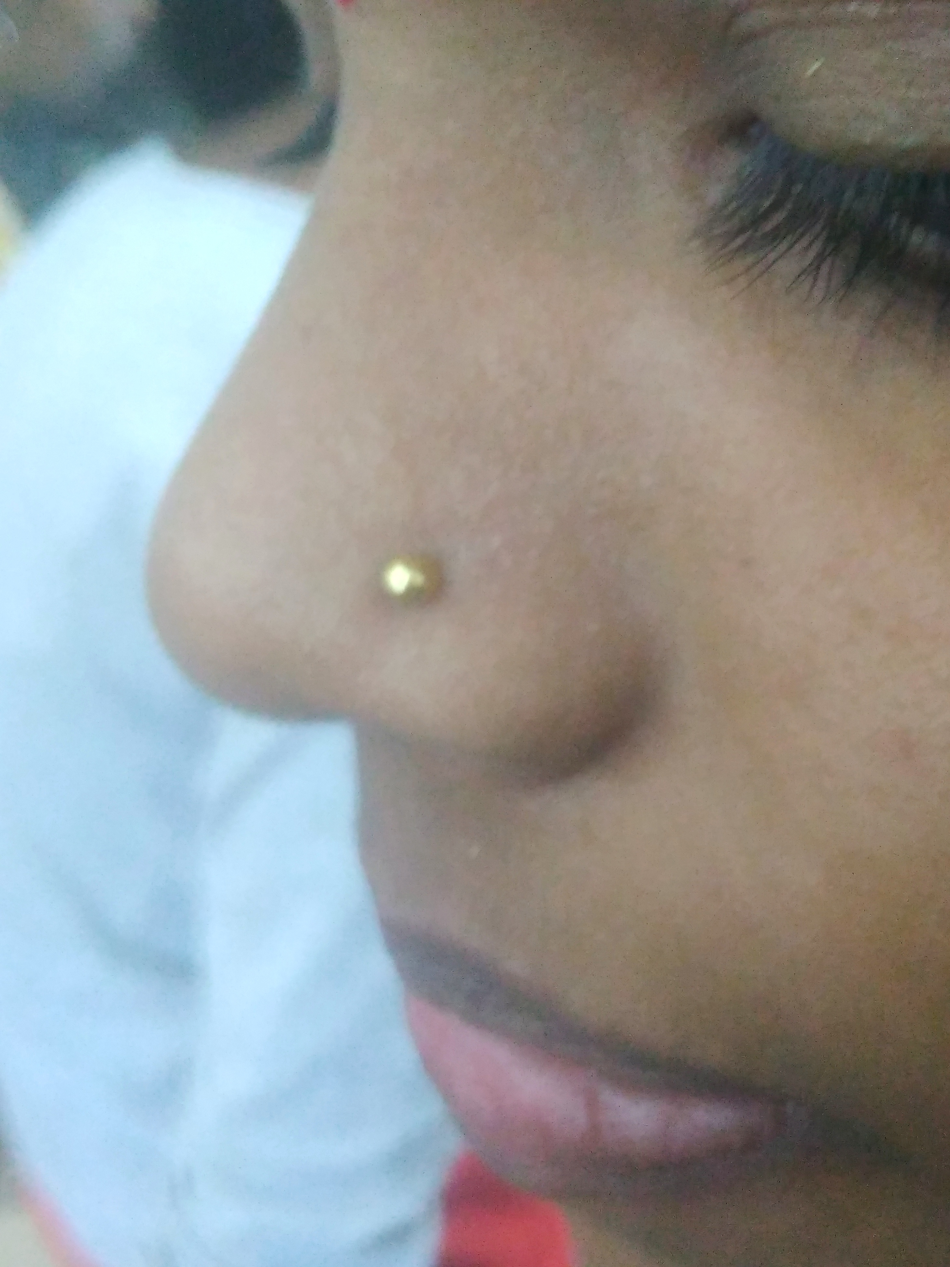 भारतीय अंलकार - चमकी